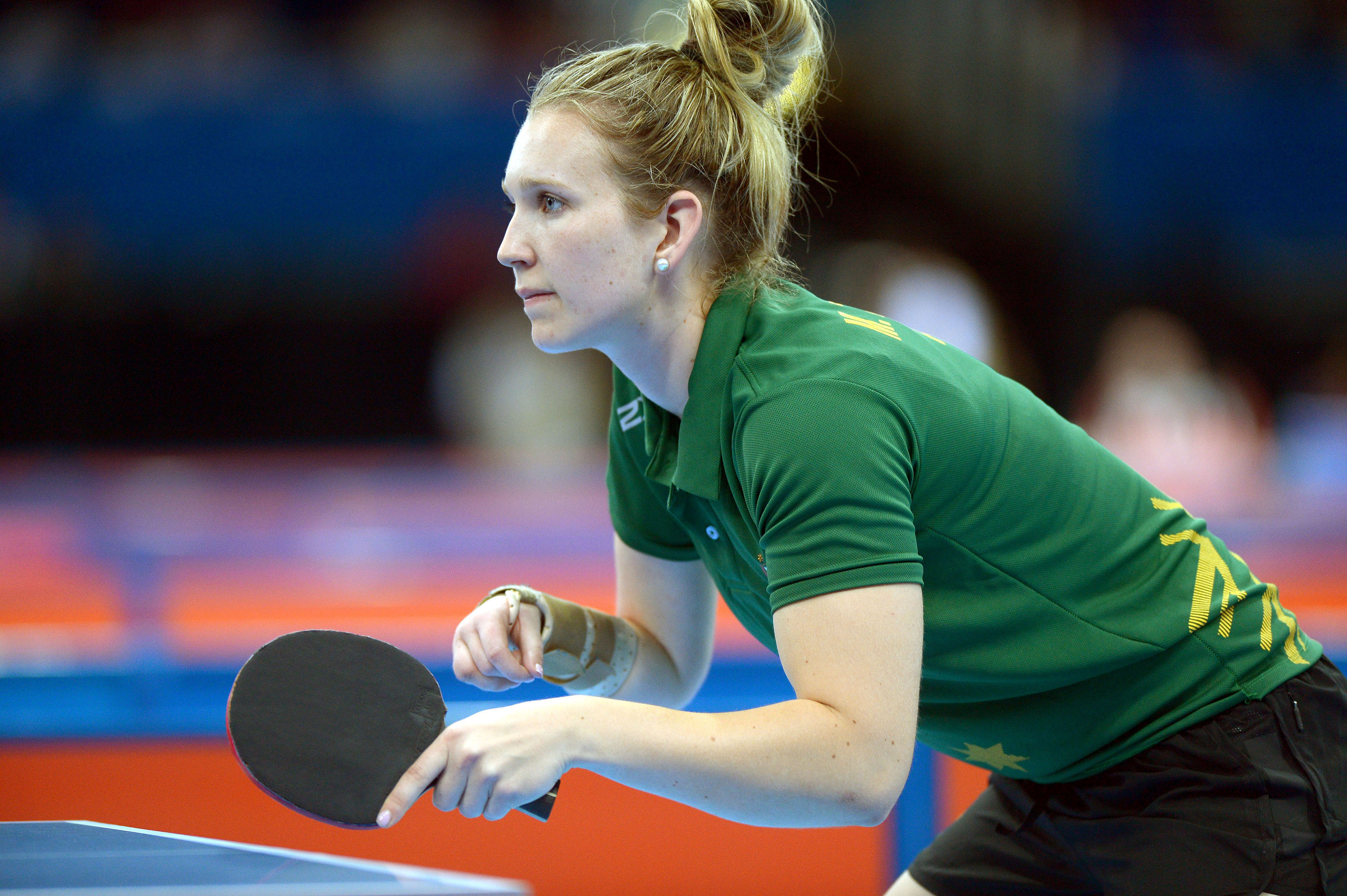 Photograph of Australian Paralympic team member Melissa Tapper at the 2012 Summer Paralympic Games in London